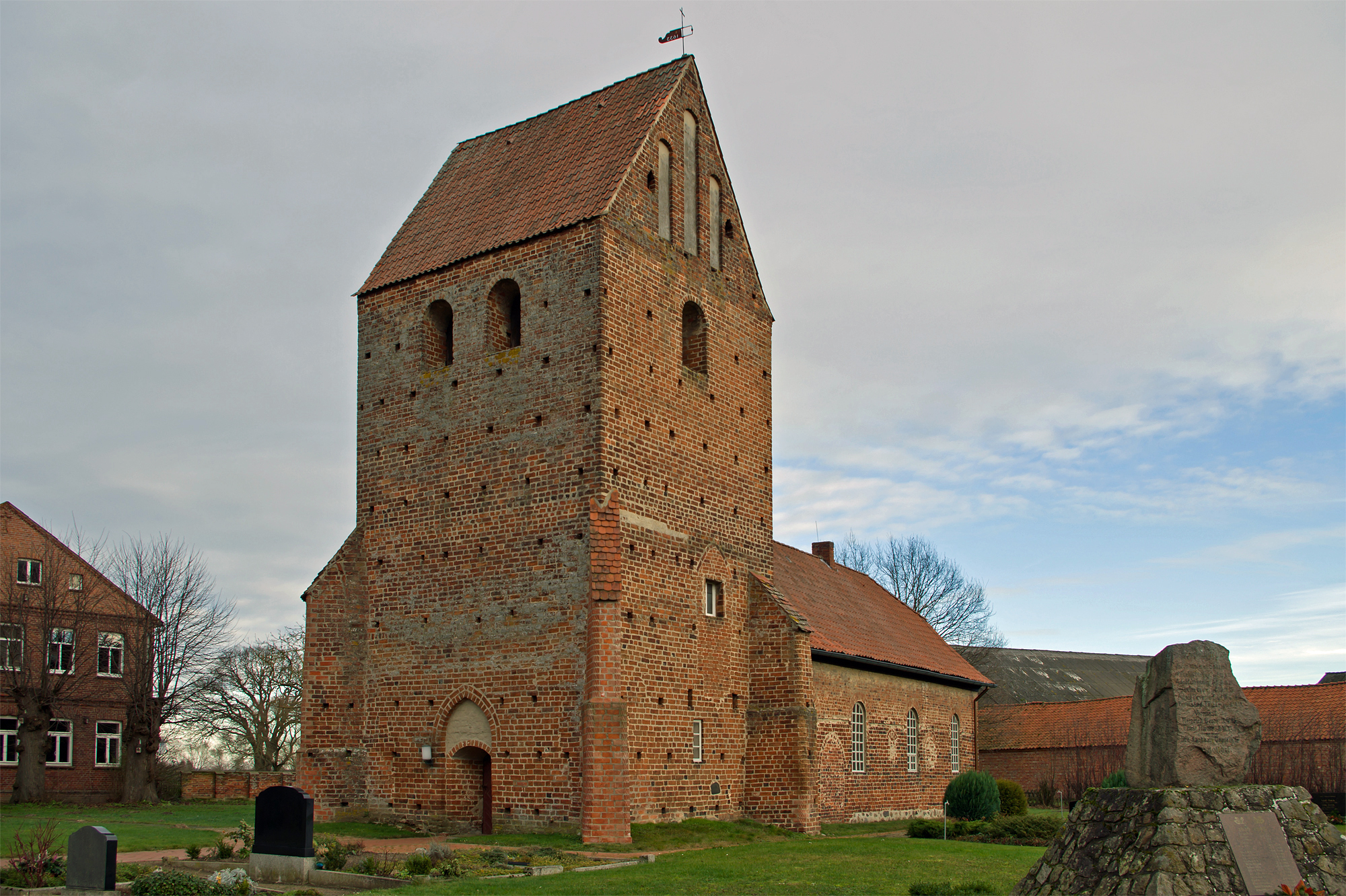 Church of the village Holtorf (district Lüchow-Dannenberg, northern Germany).